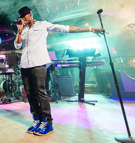 R&B superstar Ne-Yo speaks exclusively to Walmart Soundcheck about new album, 'R.E.D.,' along with his powerful return to R&B. Ne-Yo also performs a special five-song set, featuring all new tunes from 'R.E.D.,' including 'Lazy Love,' 'Let Me Love You,' 'Unconditional' and 'Jealous.'